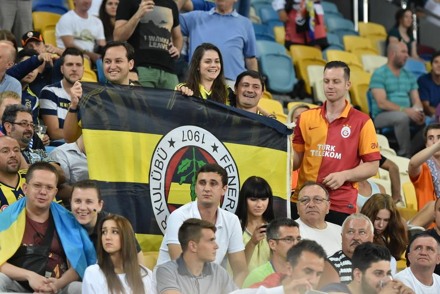 Shakhtar Donetsk - Fenerbahçe 05 August 2015 Champions League Third qualifying round